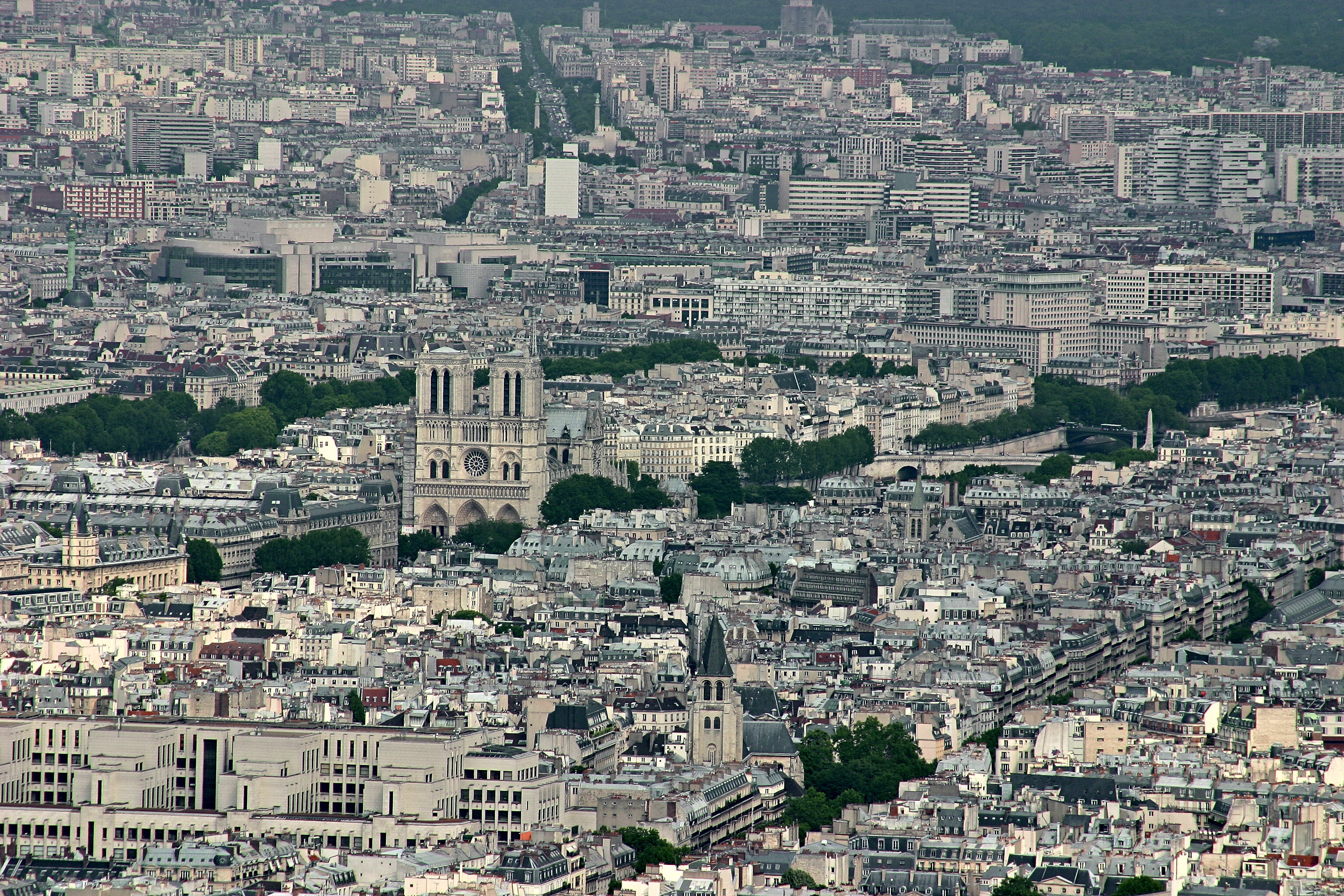 The Notre Dame de Paris cathedral and surrounds, as photographed from the Tour Eiffel. This is a retouched version of Tour_Eiffel_Notre-Dame.JPG.